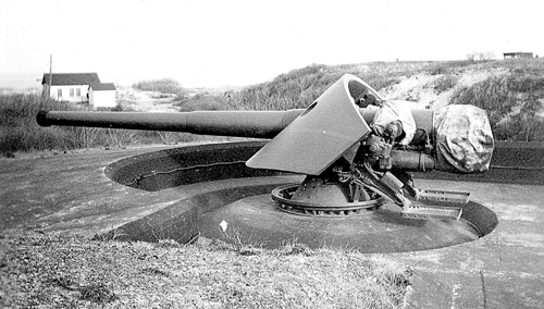 6-inch gun on model 1900 pedestal mount with gun shield